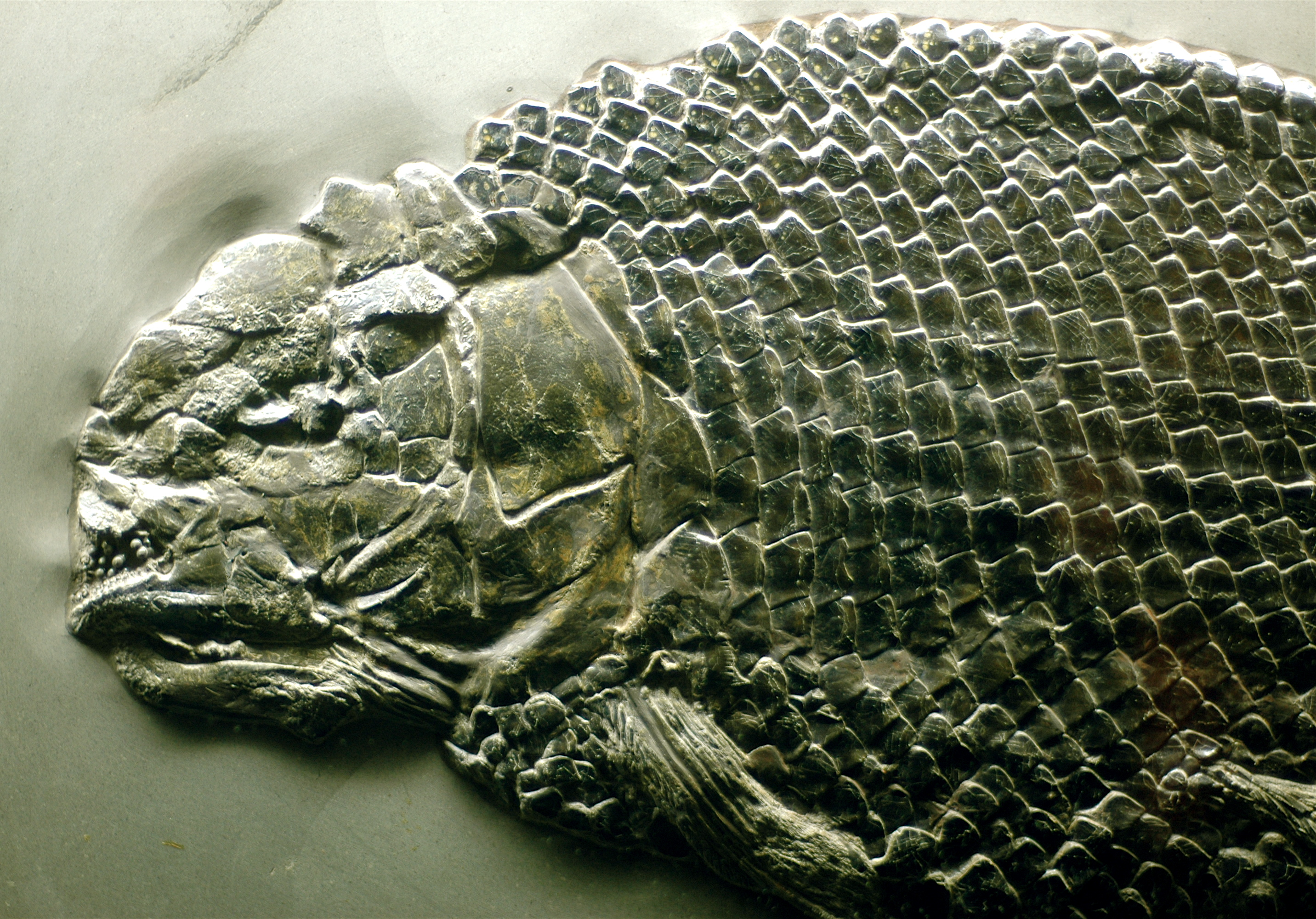 Fossil Lepidotes elvensis skull